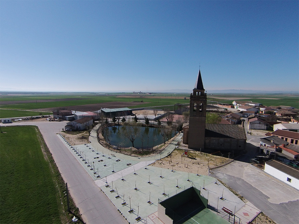 Donjimeno (Ávila, Spain). Photo taken by Smart Drone with a drone.